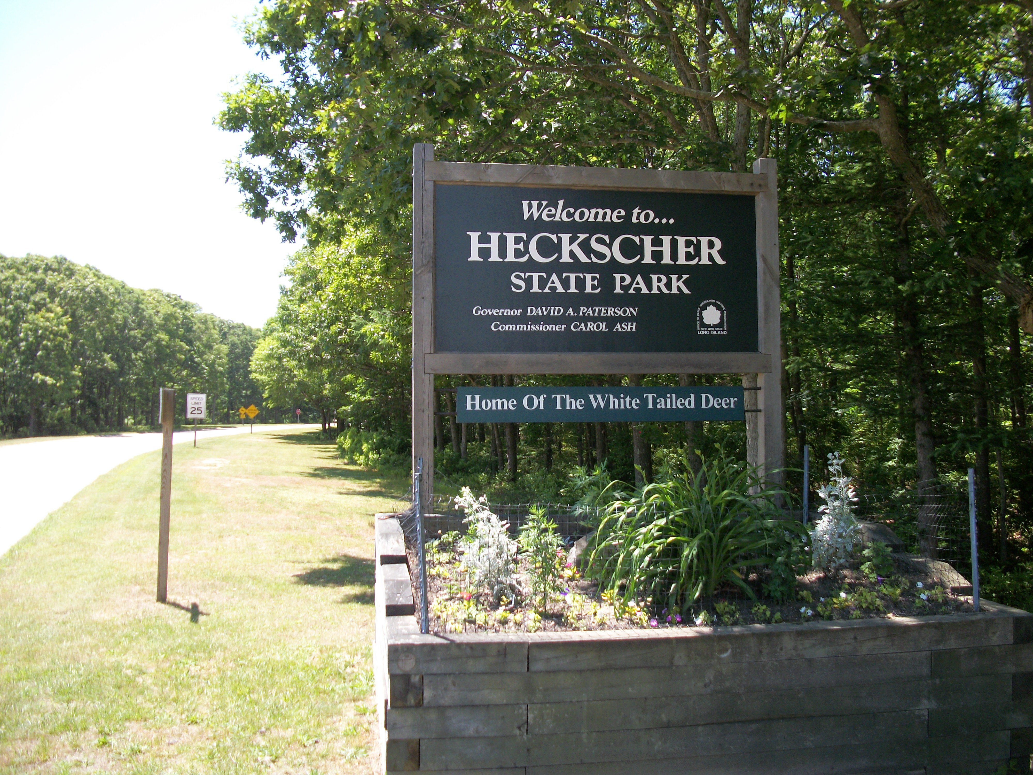 The welcome sign to Heckscher State Park south of the toll booth in Great River, New York. As you can see, they brag about being the Home of the White-Tailed Deer. I saw a couple of them that day, and I tried to get a shot of one, but it didn't turn out so good.